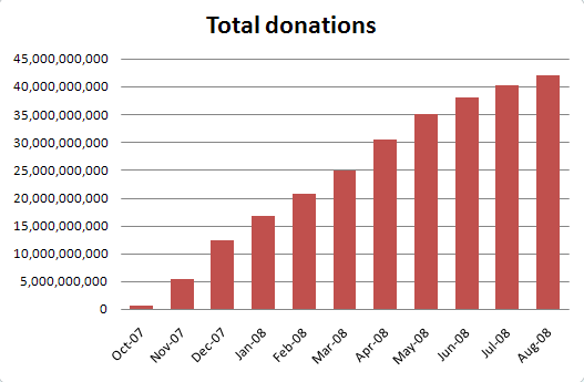 graph showing how much rice grains FreeRice has donated